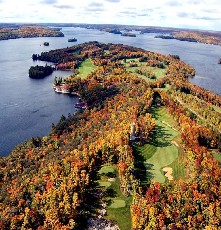 Bigwin Island Fall Aerial View